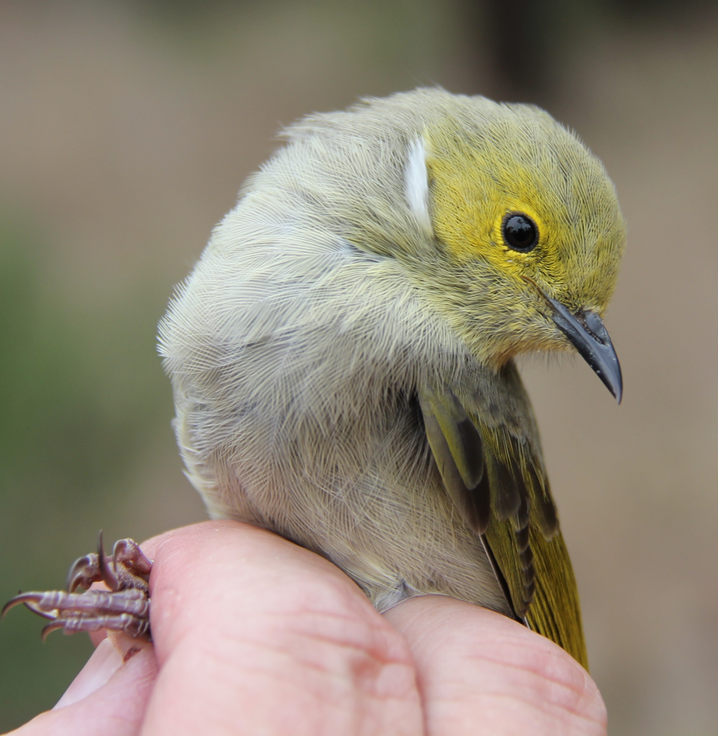 White-plumed Honeyeater Ptilotula penicillata, Charcoal Tank Nature Reserve, NSW, Australia